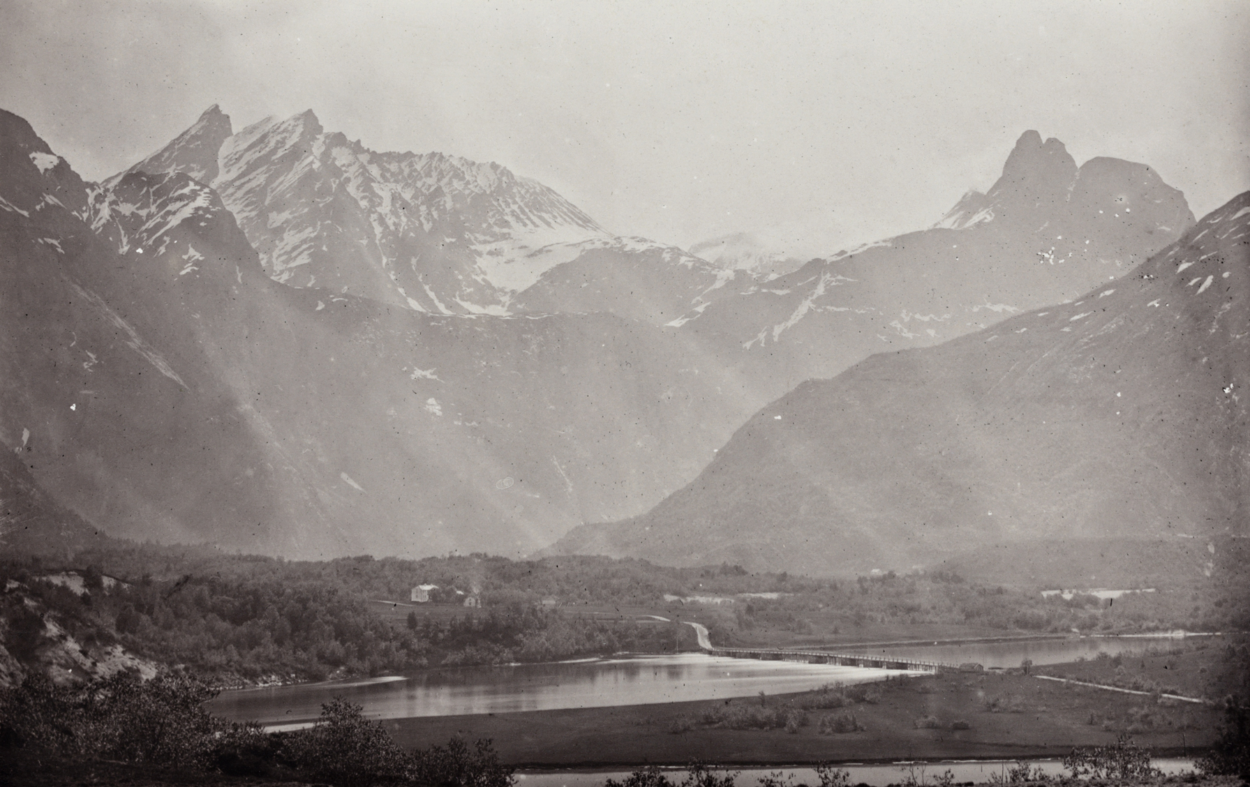 Tittel / Title: s. 29. Vingtind + Romsdal's Horn Motiv / Motif: Albuminkopi. Dato / Date: 1869 Fotograf / Photographer: Edward Backhouse Mounsey (1840-1911) Sted / Place: Møre og Romsdal, Rauma, Vengetind, Romsdalshorn Eier / Owner Institution: Nasjonalbiblioteket / National Library of Norway Lenke / Link: Bildesignatur / Image Number: bldsa_Alb_BH032